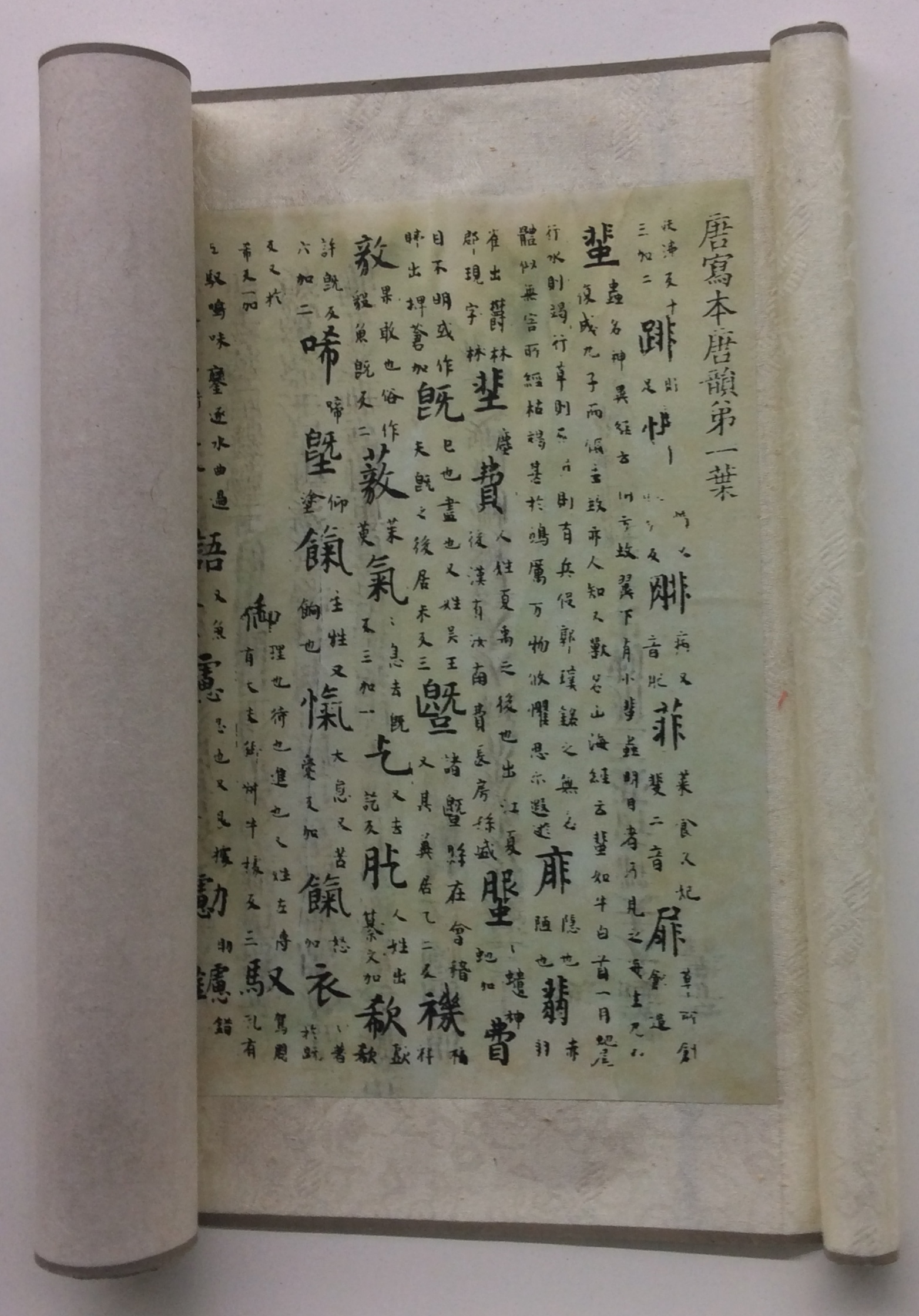 Tangyun (唐韻) exhibit in the Chinese Dictionary Museum, on the grounds of Huangcheng Xiangfu